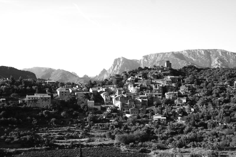 Vieussan city in Hérault, France.